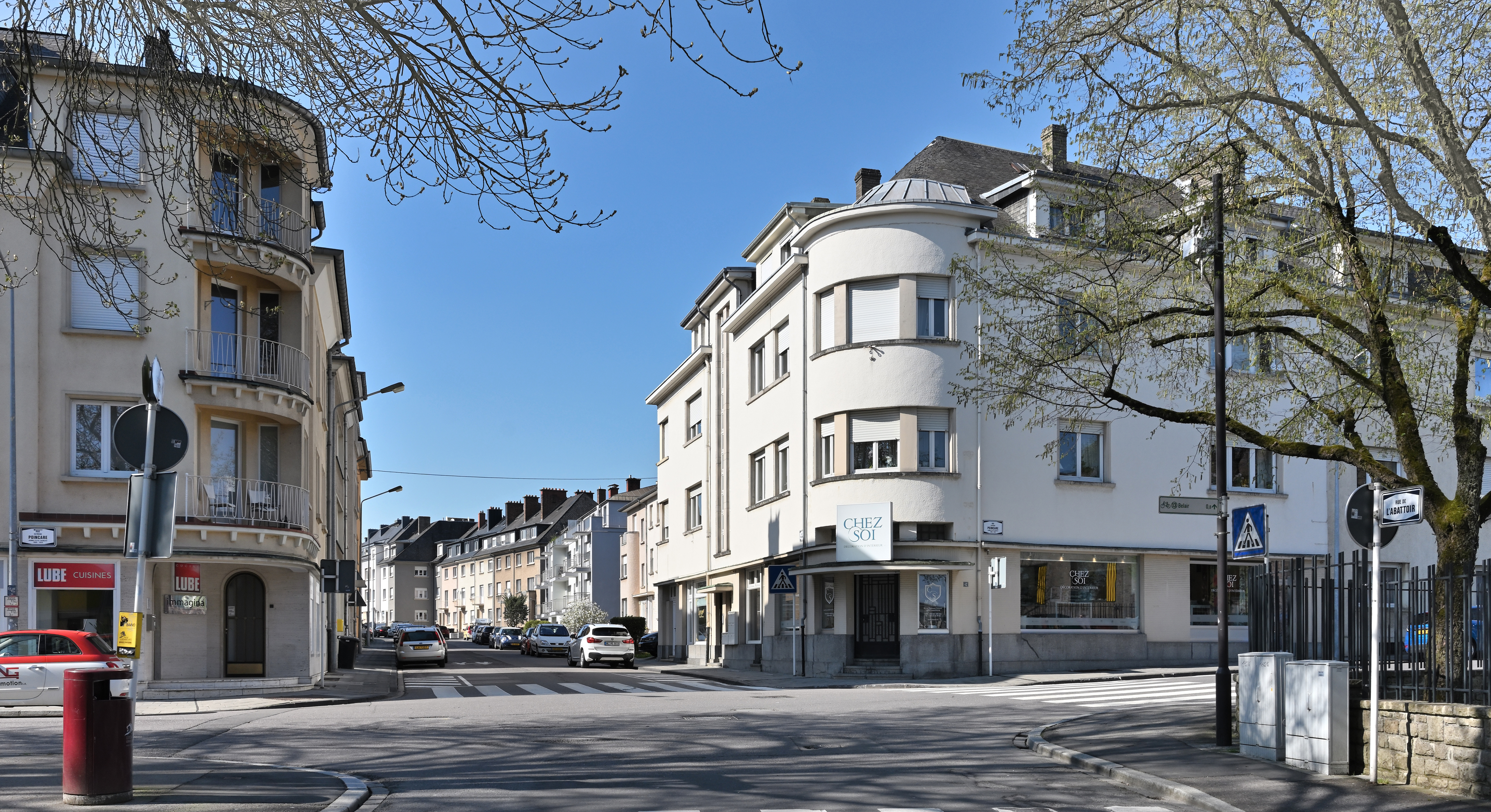 Luxembourg City: southern end of rue de la Toison-d'Or as seen from rue de l'Abattoir in April 2019.